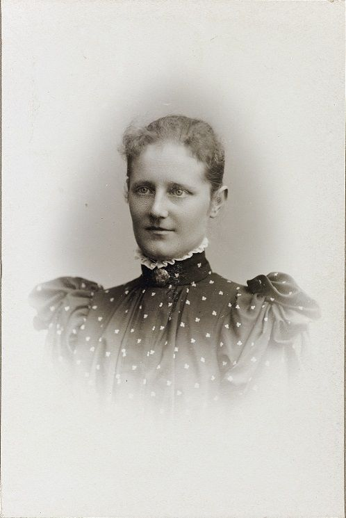 Photograph of the Finnish politician Jenny af Forselles (1869–1938).